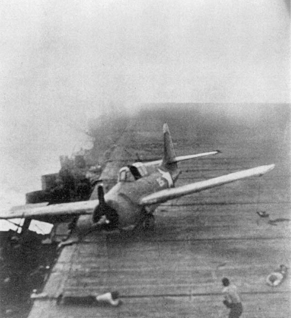 A Grumman F4F-4 Wildcat (BuNo 5246) of Fighting Squadron 72 (VF-72) from the aircraft carrier USS Hornet (CV-8) slides across the flight deck after landing aboard USS Enterprise (CV-6) as the carrier maneuvers violently under aerial attack during the Battle of the Santa Cruz Islands, 26 October 1942. The aircraft had been flown by Ensign Philip E. Souza. It was heavily damaged by Mitsubishi A6M2 Zeros from the aircraft carrier Zuihō while escorting a strike from Hornet at circe 0900 hrs (note the frozen right aileron). Souza reached the Enterprise circa at 1120 hrs, shortly before the carrier was attacked by dive bombers from the Japanese aircraft carrier Junyō. The Wildcat 5246 broke loose during the evasive maneouvering and slid across the deck with a collapsed landing gear. It was quickly pushed over the side. Note the flight deck crews taking cover.